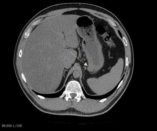 Axial CT image of a small subserous gastrointestinal stromal tumor in the posterior wall of the stomach